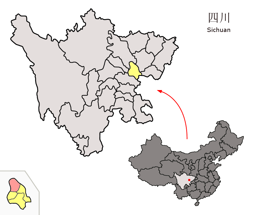 Location of Shehong County (pink) and Suining Prefecture (yellow) within Sichuan province of China Map drawn in october 2007 using various sources, mainly : Sichuan province administrative regions GIS data: 1:1M, County level, 1990 Sichuan Counties map from